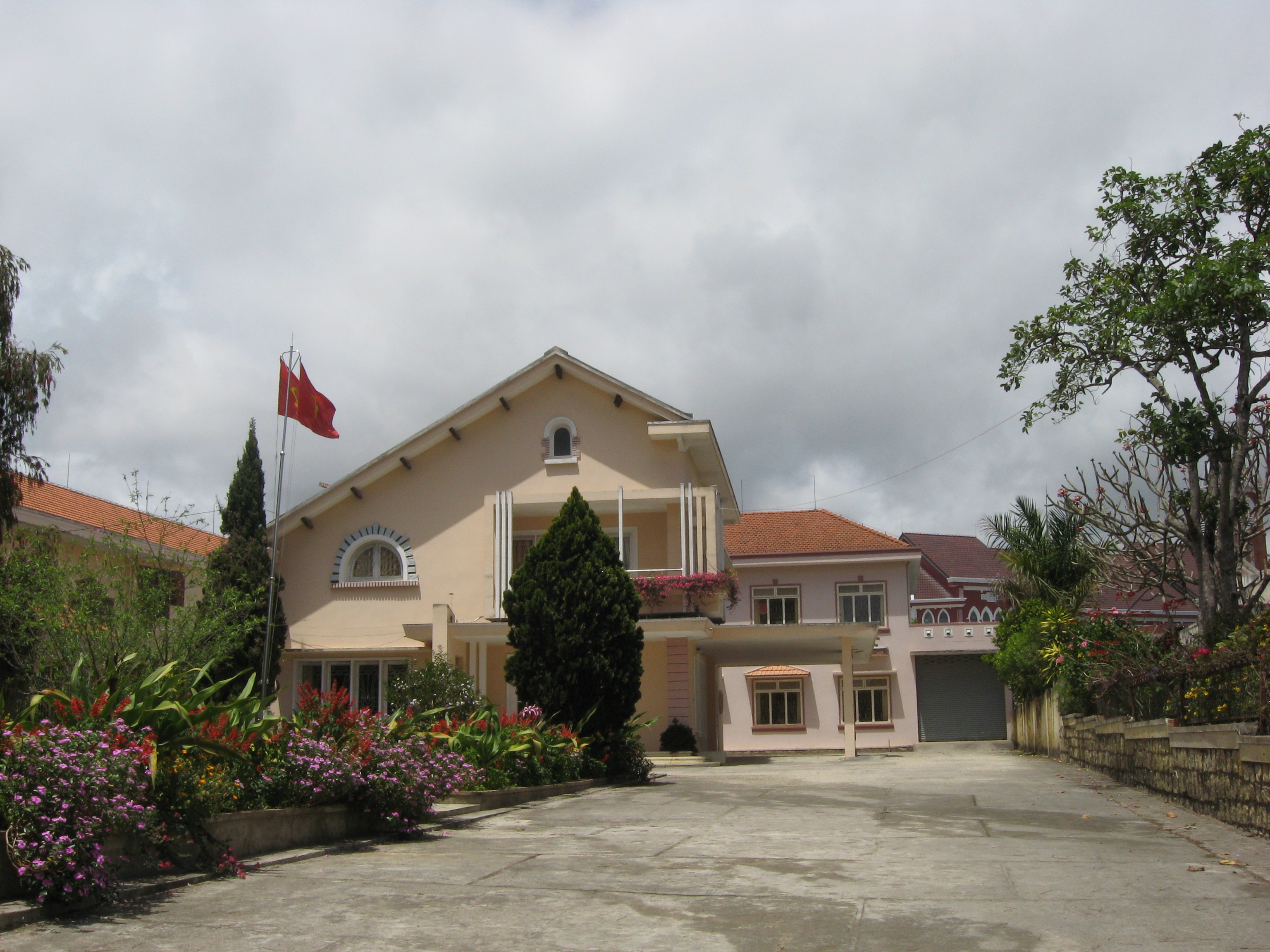 Villa, 31B Quang Trung Street, Da Lat